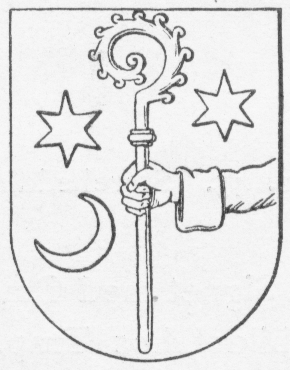 Coat of arms of Sorø, a chartered town in Denmark. Illustration from the article Om danske By- og Herredsvaaben written by Anders Thiset and published in Tidsskrift for Kunstindustri 1893-1894.